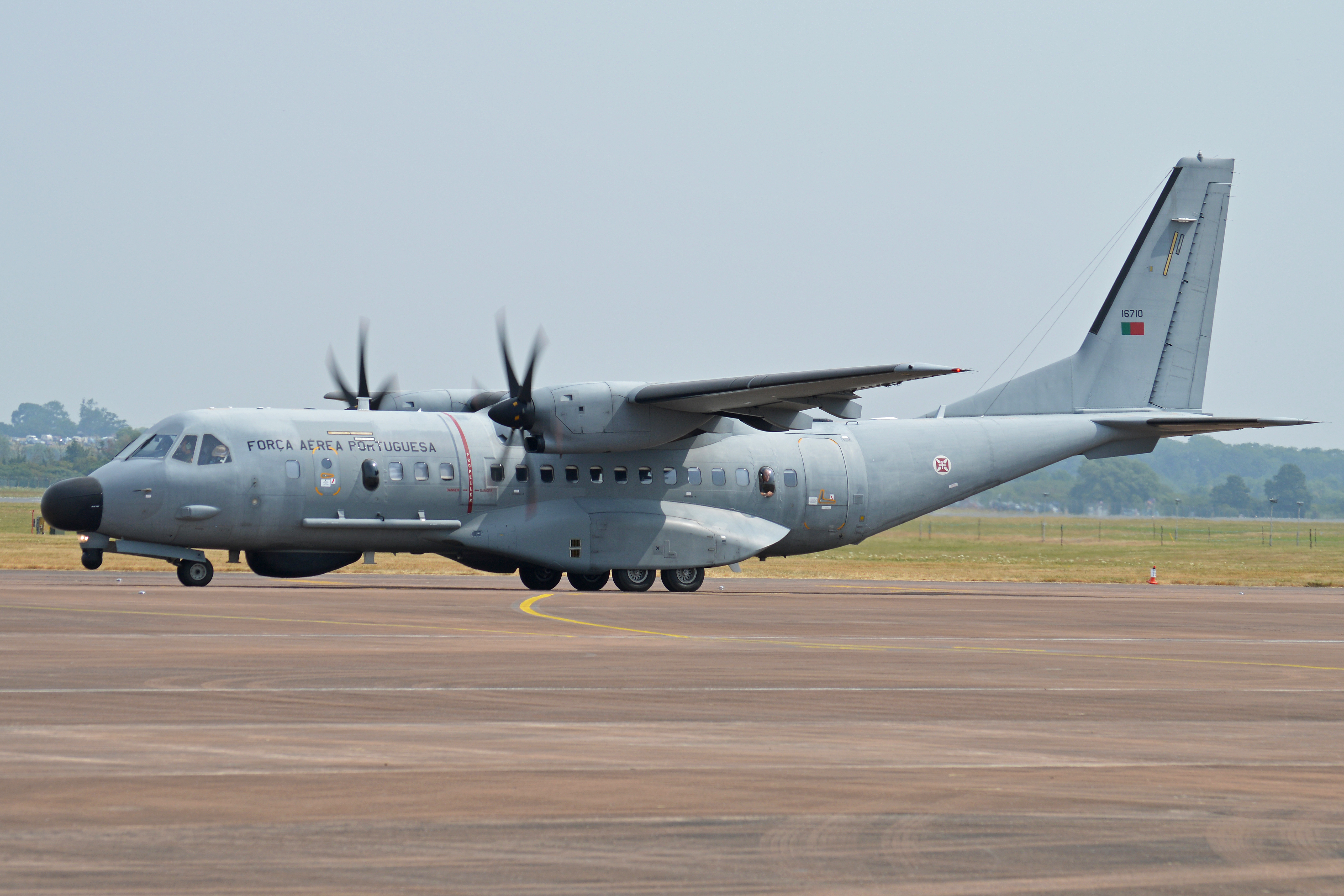 Operated by Esq502, Portuguese Air Force. c/n 063. Seen taxiing out to depart the 2013 RIAT at Fairford. 22-7-2013